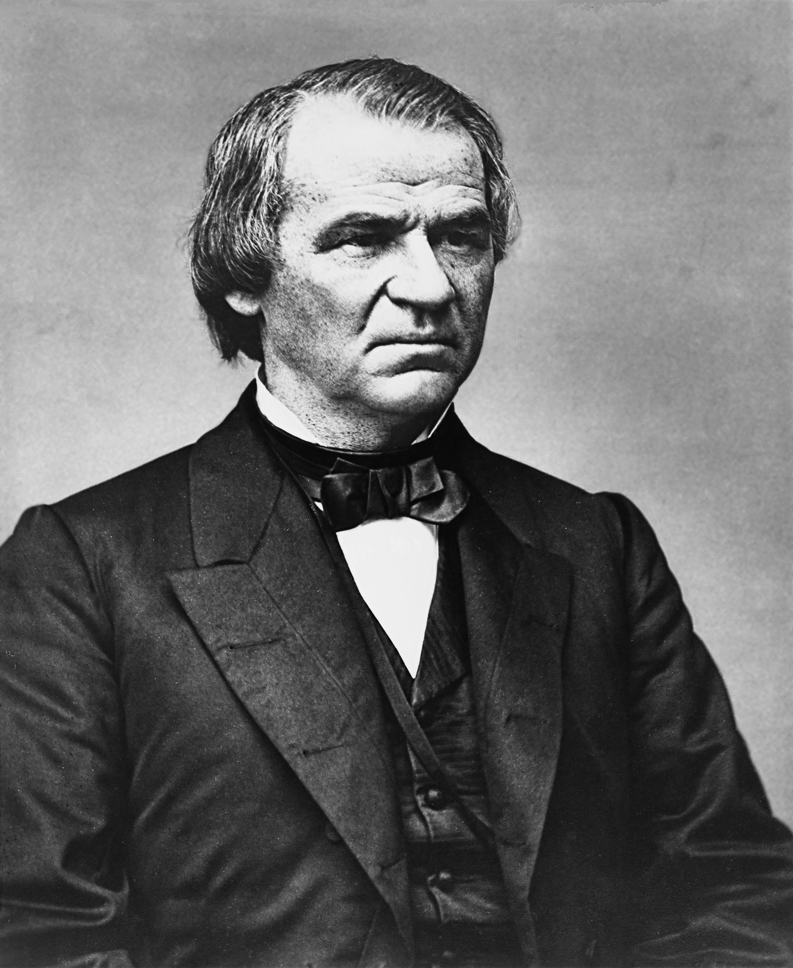 Andrew Johnson, half-length portrait, facing left